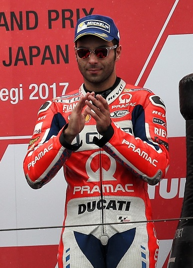 Marc Márquez, Andrea Dovizioso and Danilo Petrucci, celebrating on the podium after finishing in second, first and third place at the 2017 Japanese Grand Prix.